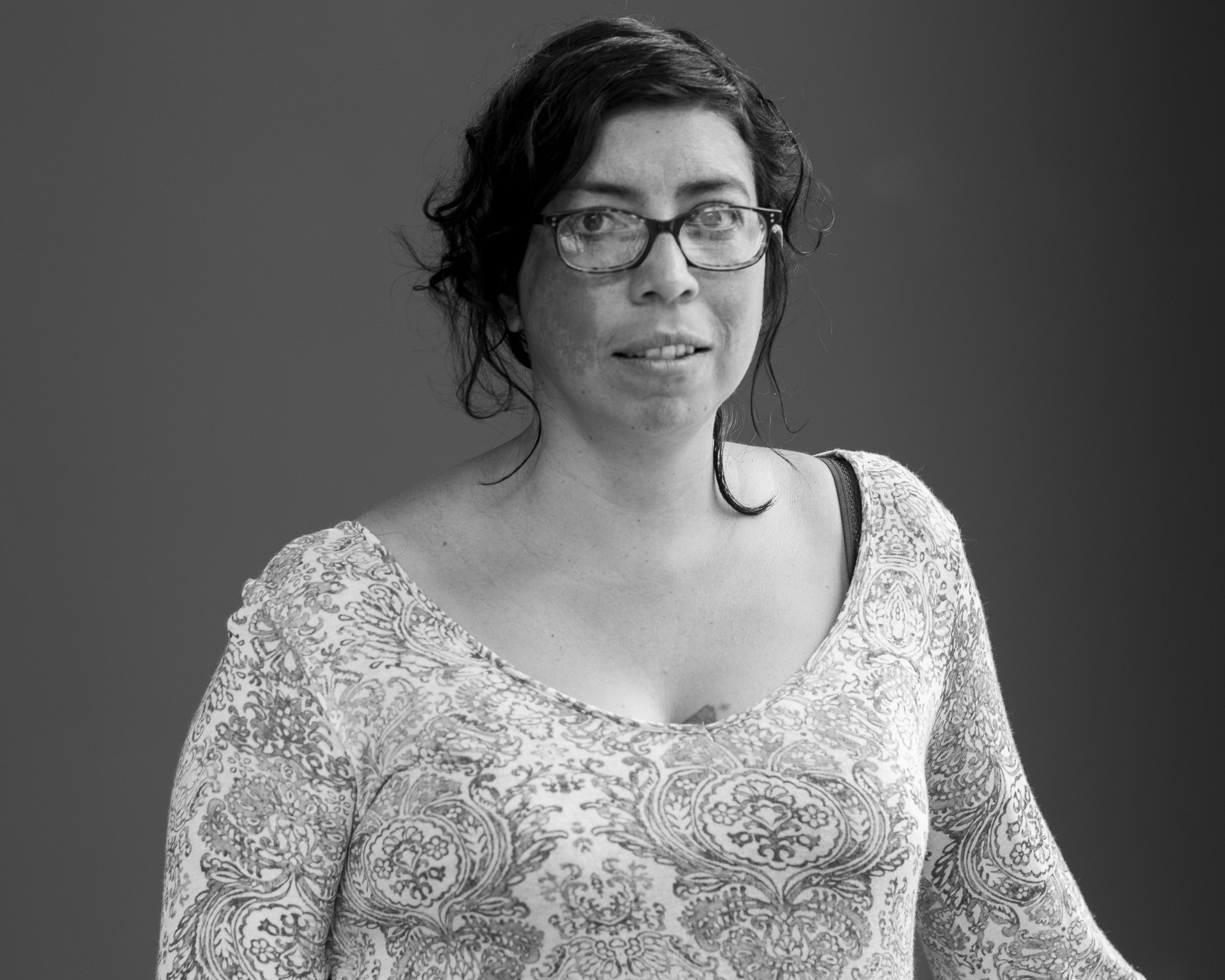 Tatiana Huezo, Ambulante Festival 2016. Picture by Cristina Cerda.